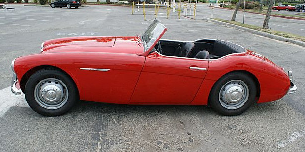 1960 Austin Healey 3000 Mark I BT-7